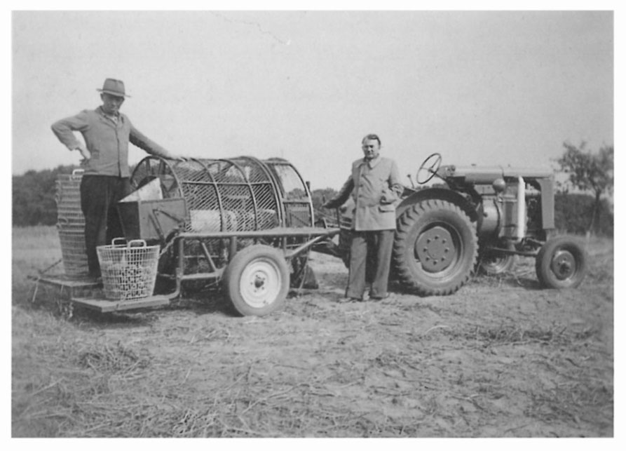 Heinzelmann Potato harvester